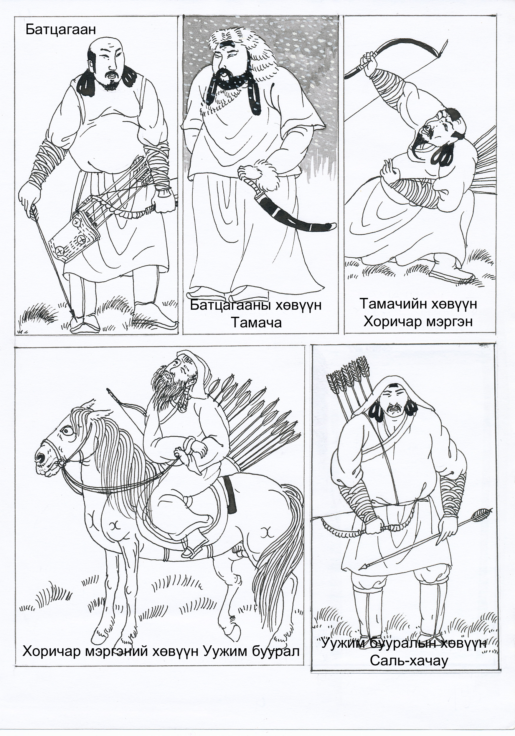 Otgonbayar Ershuu Comic: The Secret History of the Mongols